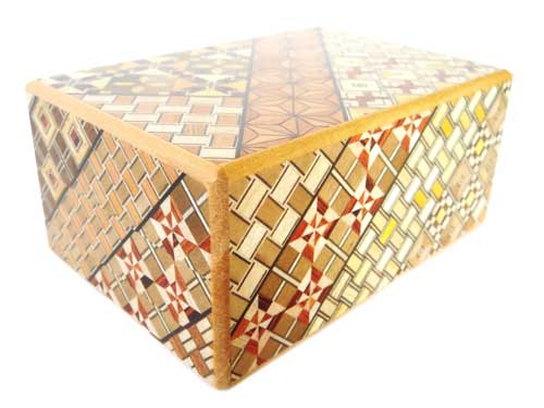 Yosegi Himitsu Bako/ Japanese Puzzle Box is the traditional Japanese Secret box originated in Japan's culturally rich Edo Period. It was first used by Samurai to send secret messages. The surface of the box is covered with Yosegi, traditional Japanese wooden mosaic. Even nowadays the Puzzle Box manufacturing process is not automated and each box is handmade in Hakone region by Japanese masters.